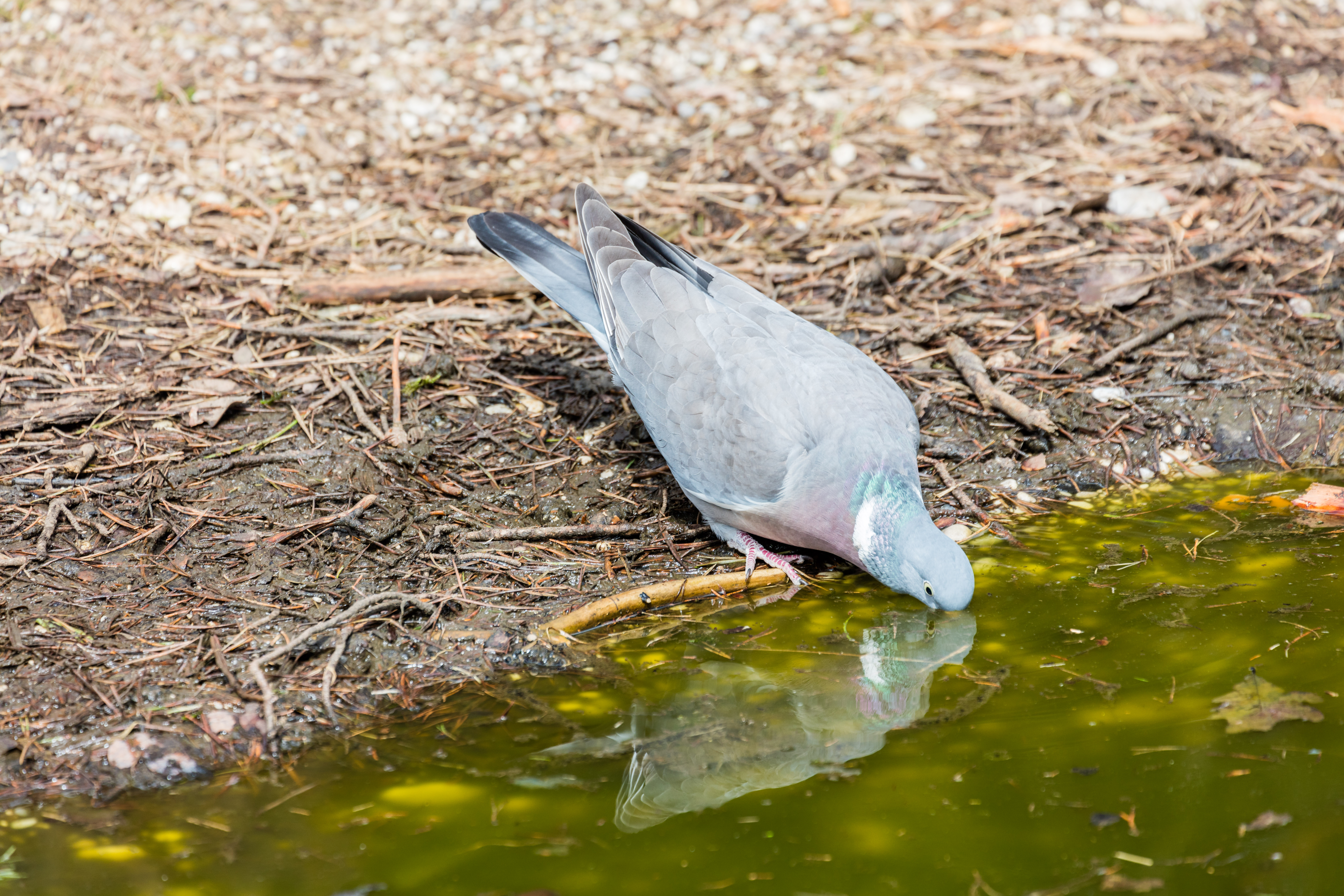 Common wood pigeon (Columba palumbus), Hartelholz Forest, Munich, Germany